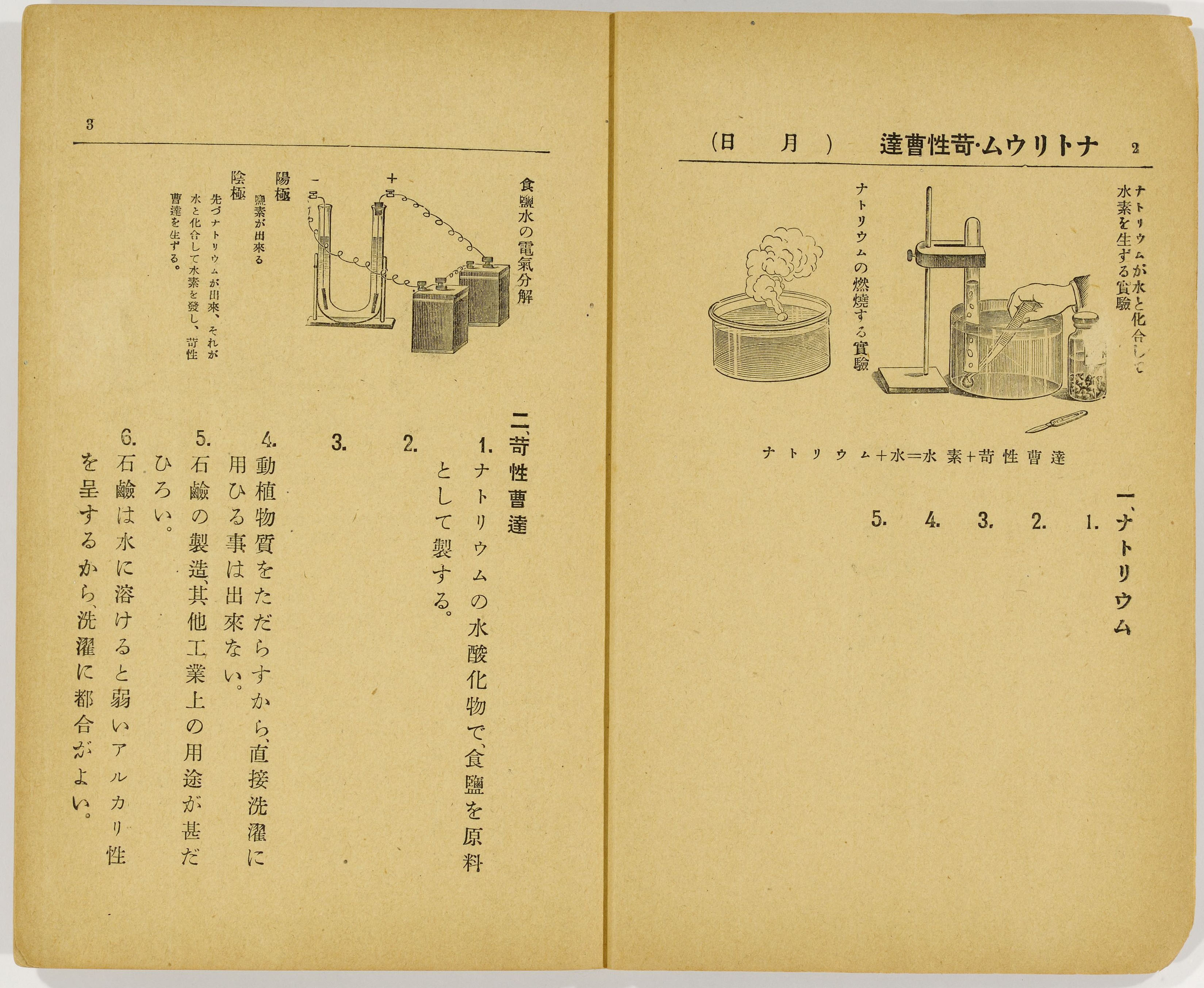 1917年に信濃教育会が発行した「高等小学校理科筆記帳」。児童が自ら課題を解いて活動し，結果を書き込めるように余白をもうけていた。